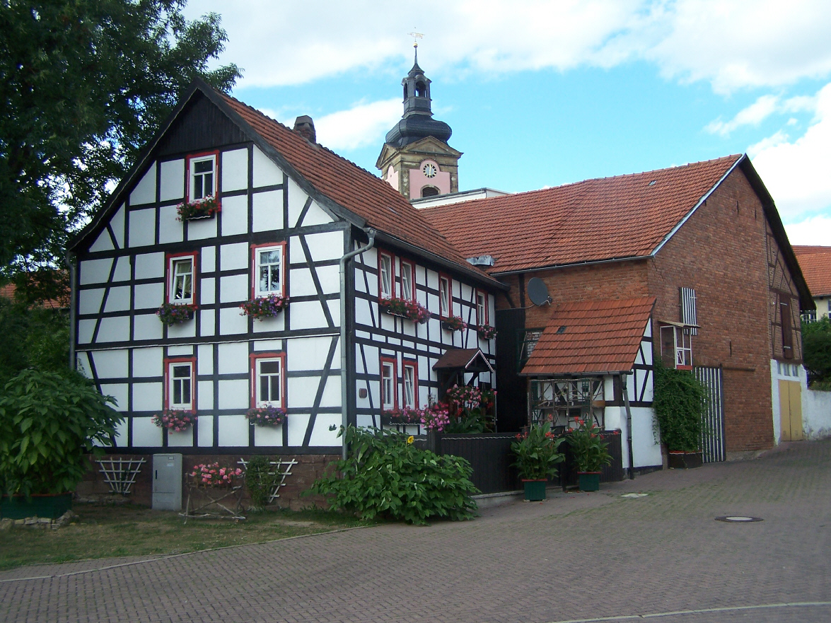 In the village Berka vor dem Hainich.